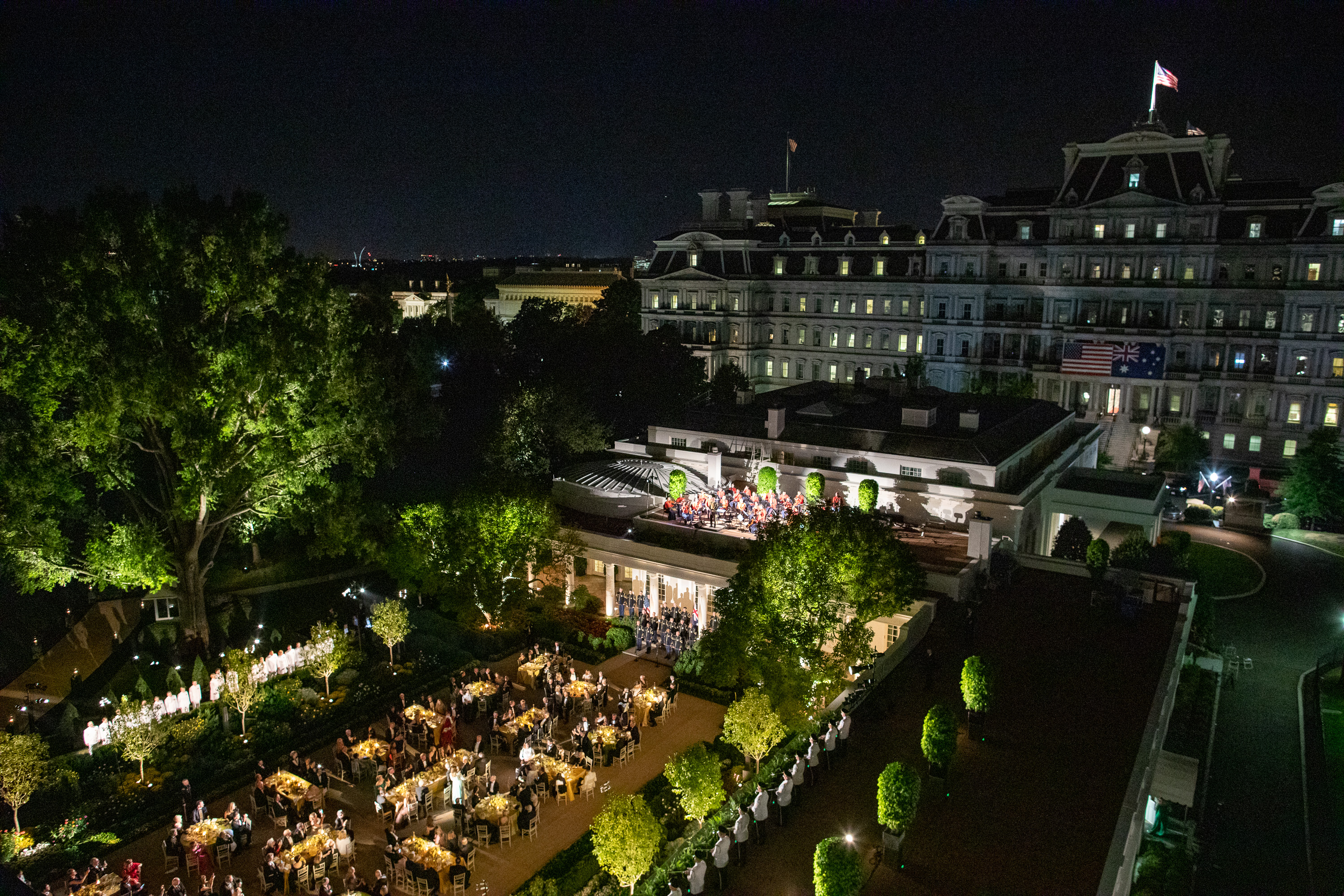 View of the Rose Garden during the State Dinner for Australia’s Prime Minister Scott Morrison Friday, Sept. 20, 2019, at the White House. (Official White House Photo by Keegan Barber)